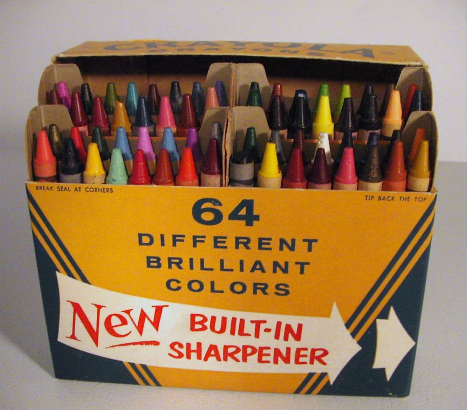 The first version of the Crayola No.64 box (open)